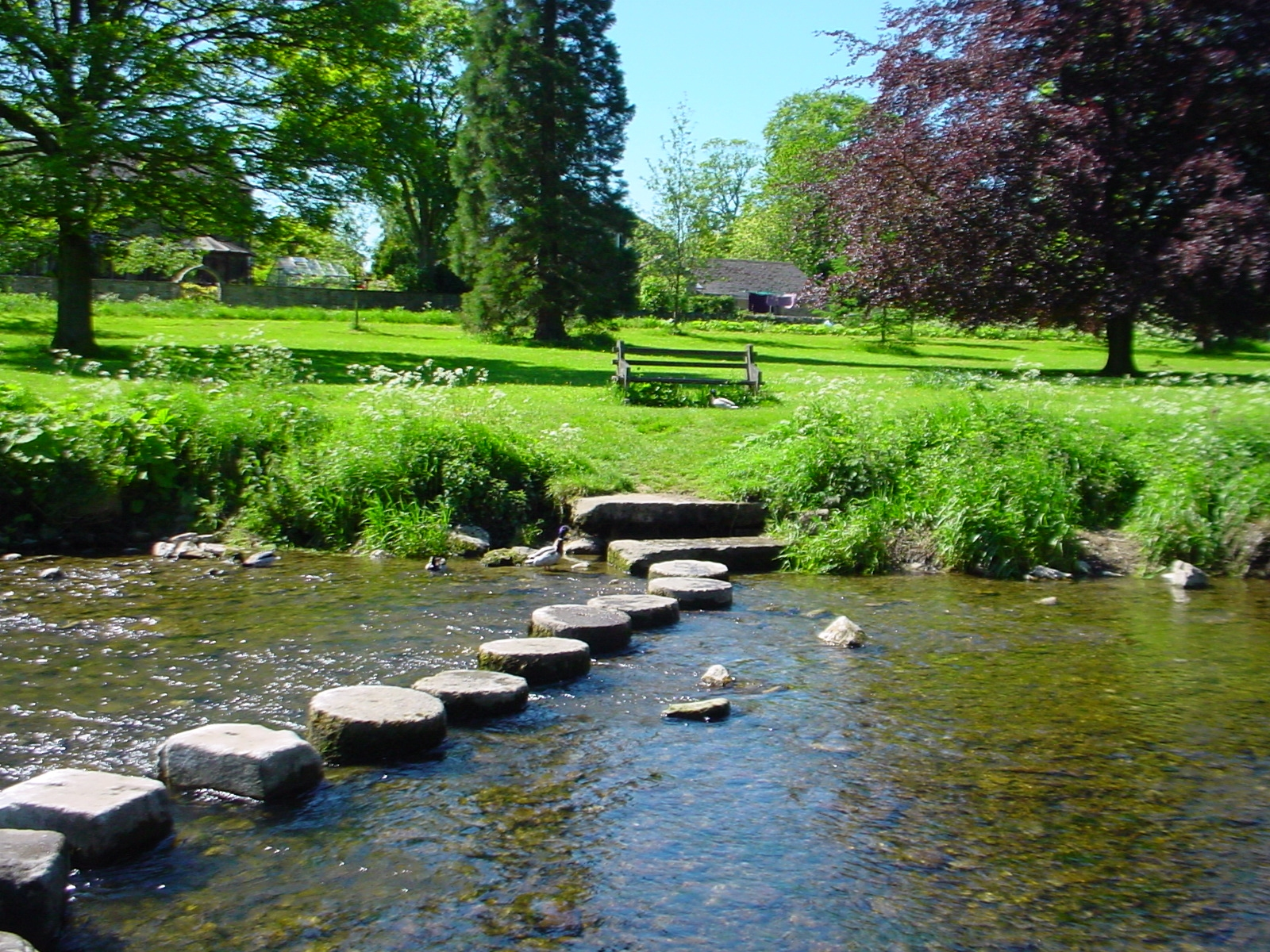 Stepping stones in Gargrave, North Yorkshire